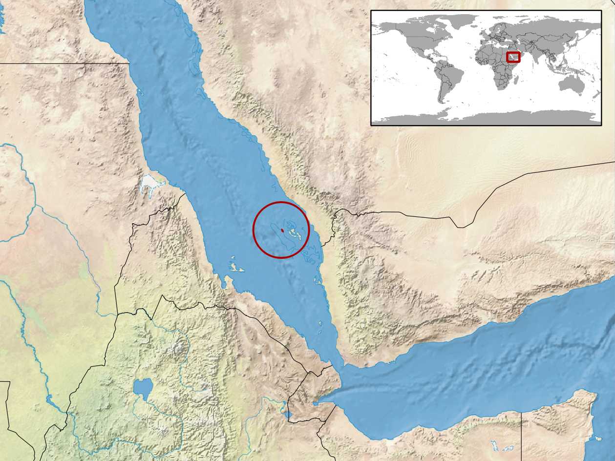 geographic distribution of Coluber insulanus (Native: Saudi Arabia)